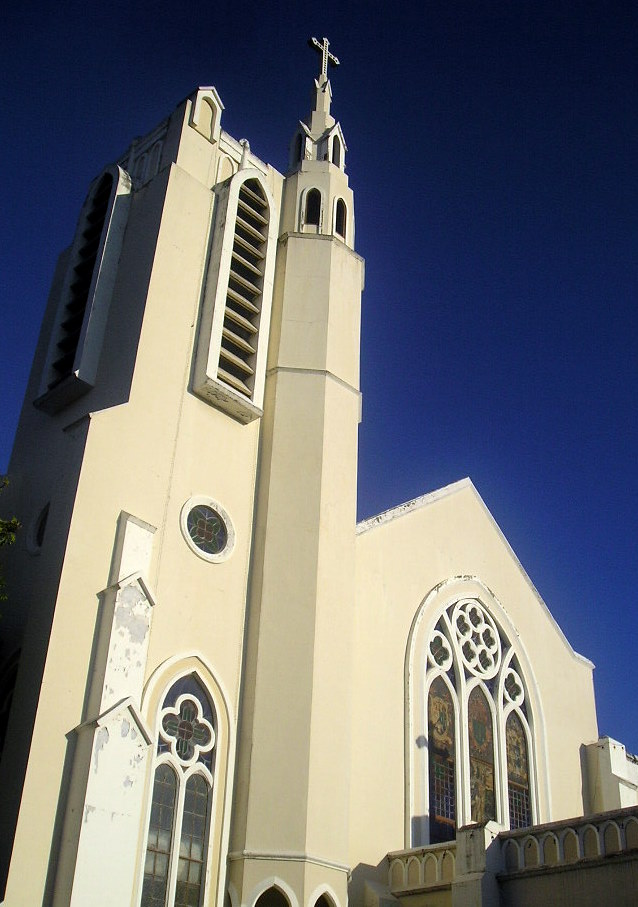 Tarlac Cathedral